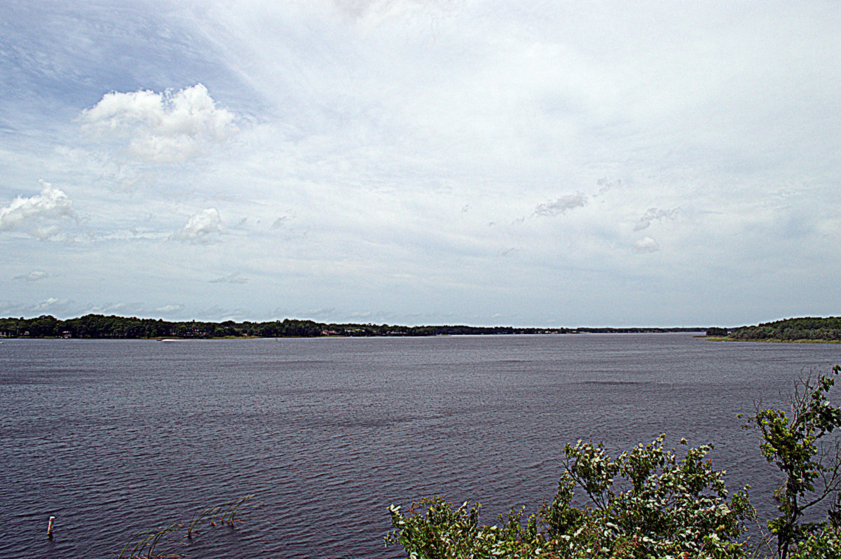 Lake Tarpon view from the lookout tower at John Chestnut Park in Pinellas County, Florida